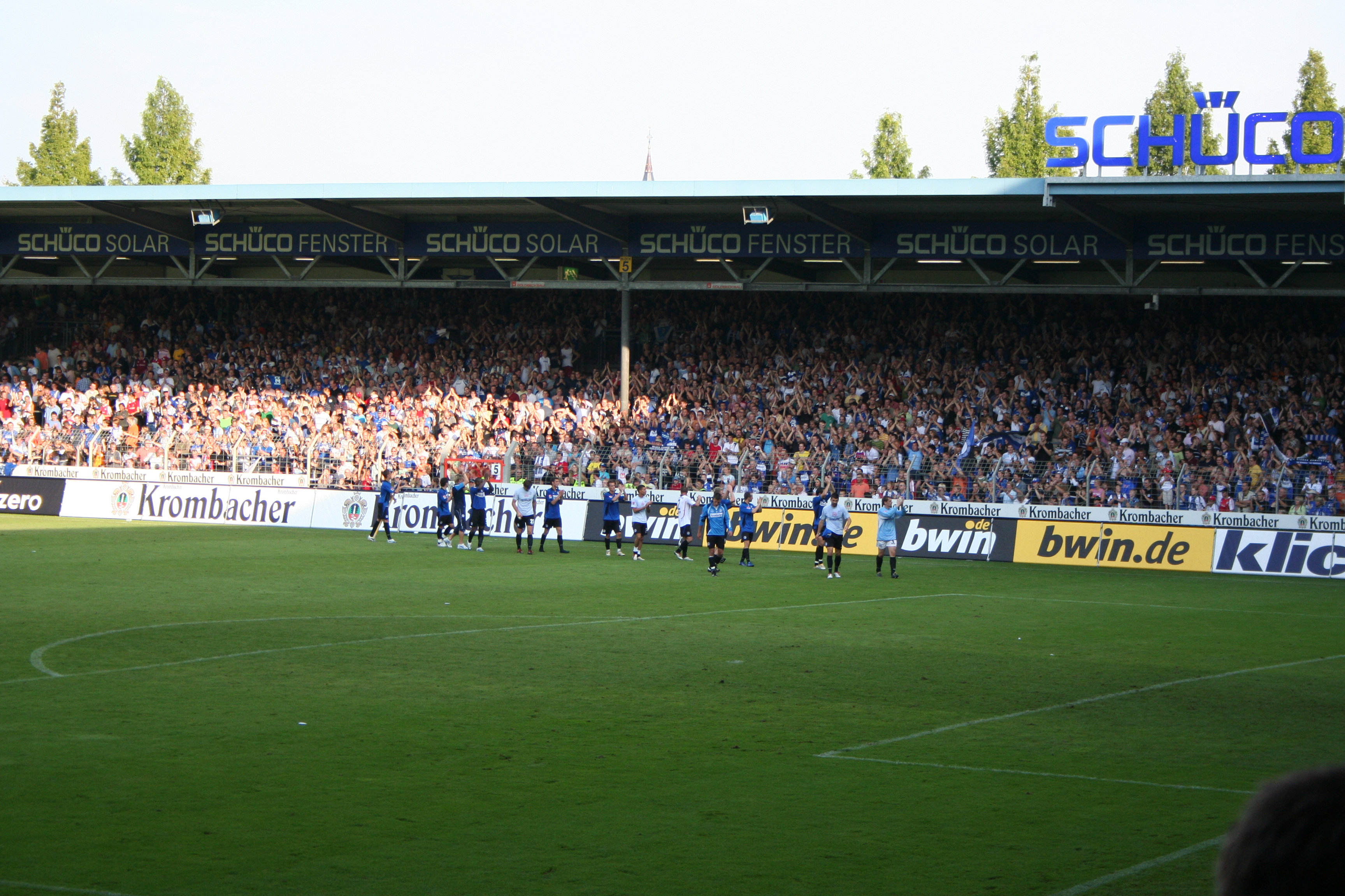 Old Eaststand of the Bielefelder Alm (2006)